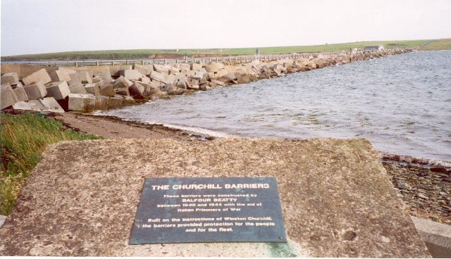 Churchill Barriers. The view from the Orkney island of Mainland looking at Churchill Barrier number one where you can drive over to the island of Lamb Holm.